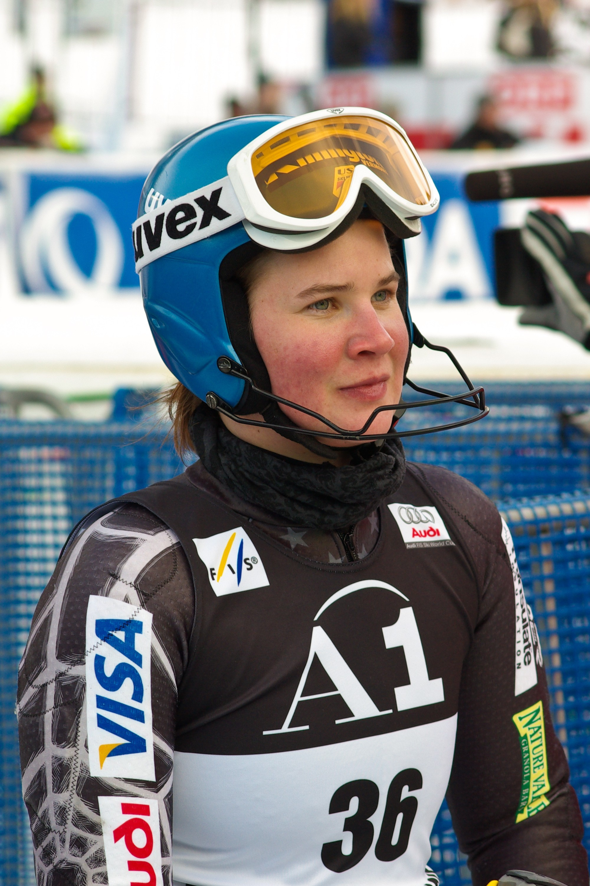 American alpine skier Chelsea Marshall after the slalom run of the super combined in Altenmarkt-Zauchensee (Austria) on 17 January 2009.